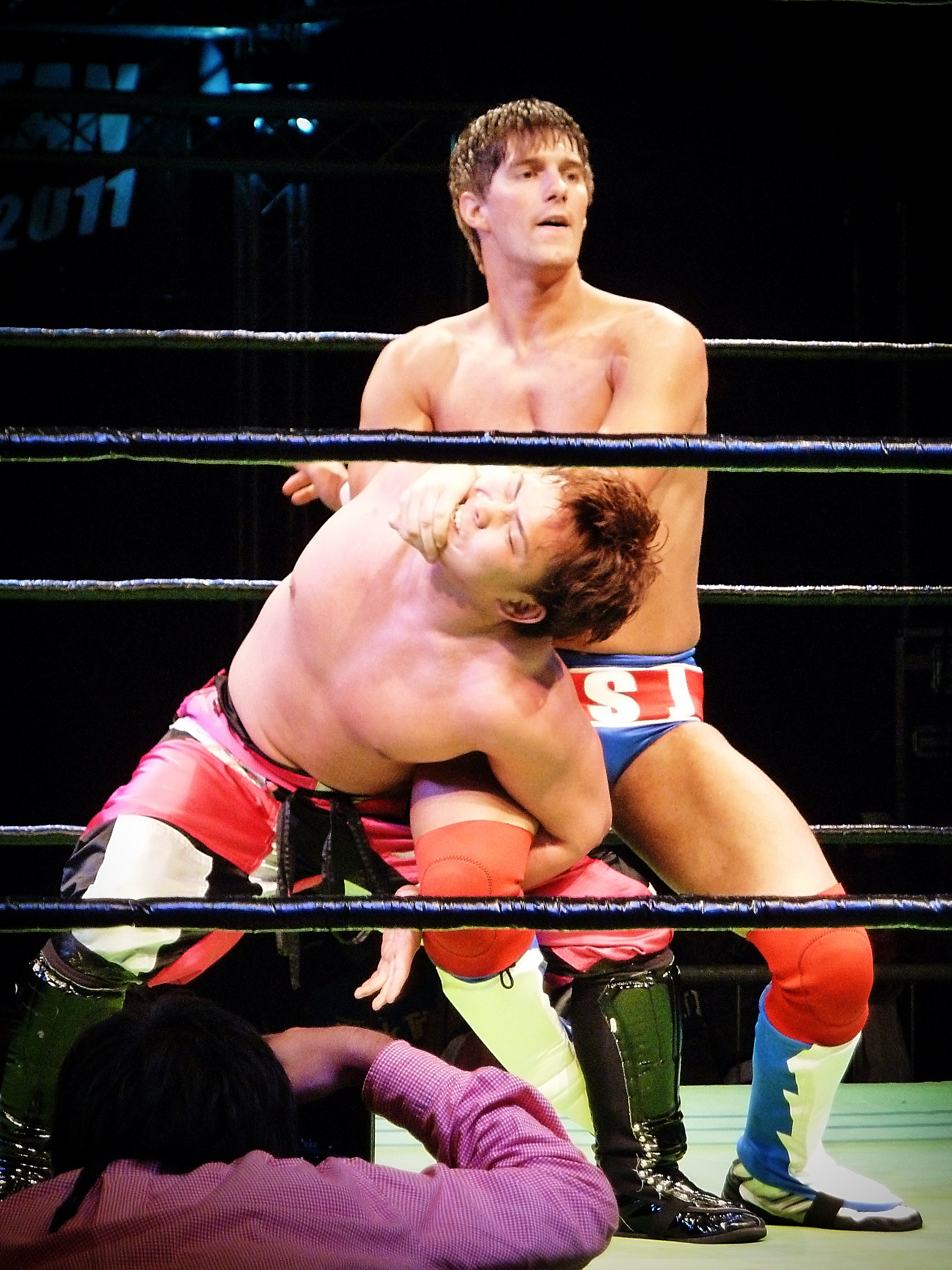 Zack Sabre applying a wrestling hold.